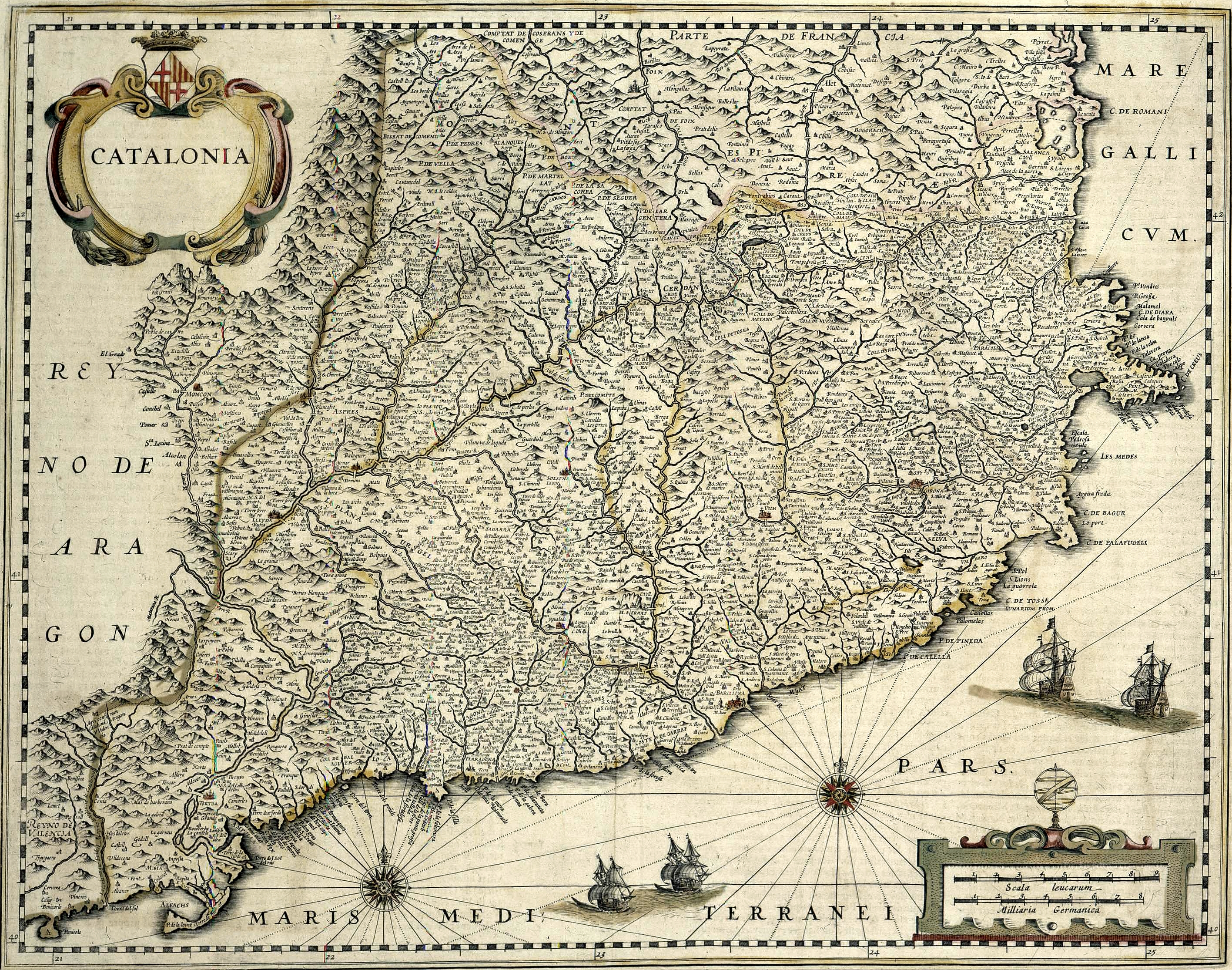 Willem Janszoon Blaeu. “Catalonia.” Amsterdam: 1634 [1]-1662. Hand Colored. 20 x 15 inches. [2]